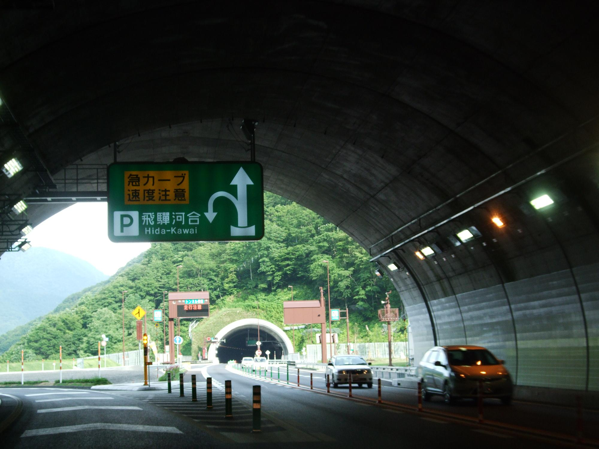 Hida Tunnel Kawai portal facing towards the Hida-Kiyomi Interchange